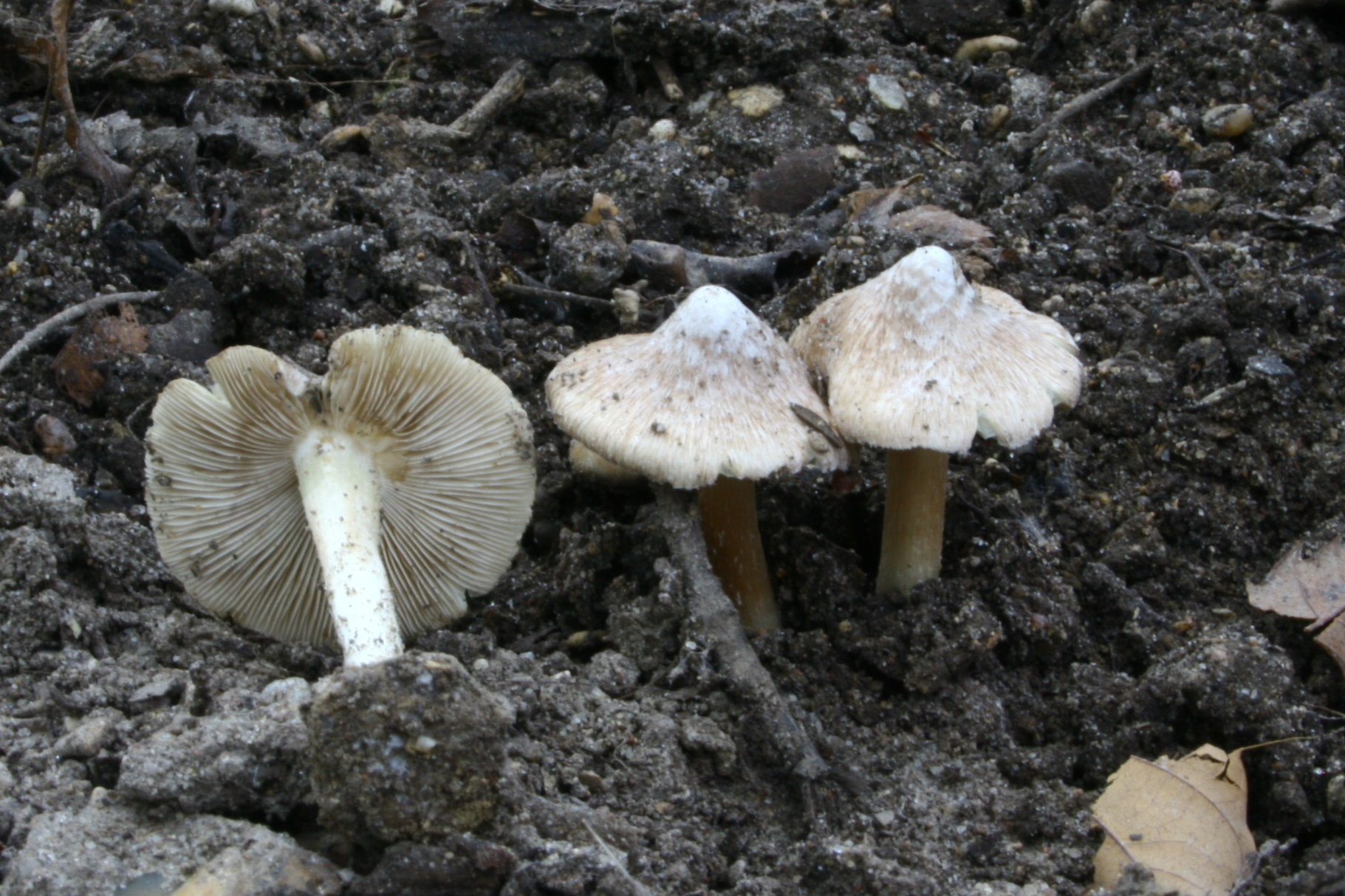 Inocybe maculata in the Forêt de Sénart near Paris, France.